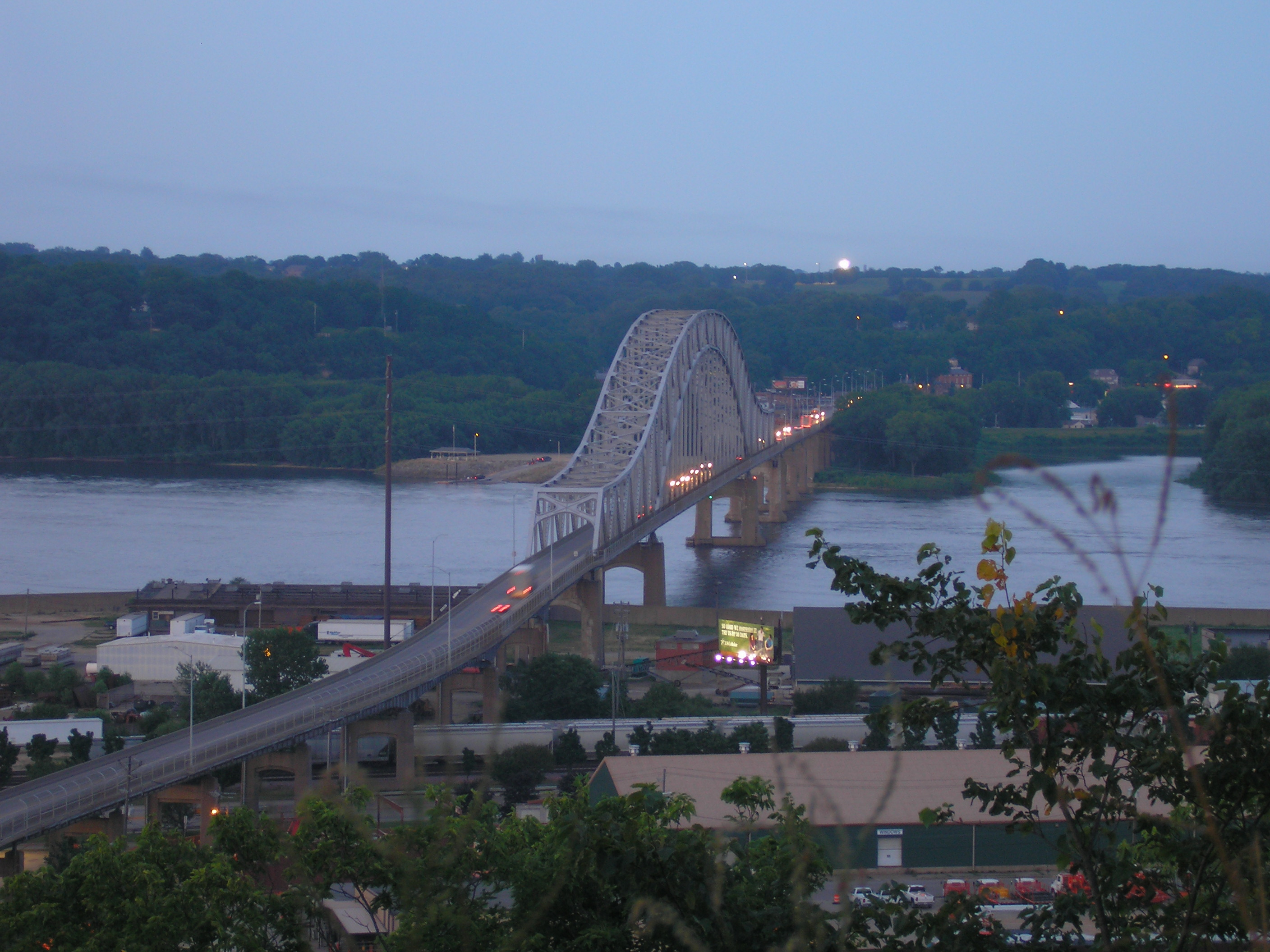 Julien Dubuque Bridge at night